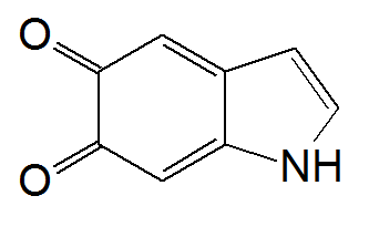 Chemical structure of indole-5,6-quinone